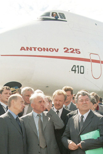 ZHUKOVSKY, THE MOSCOW REGION. President Vladimir Putin inspecting an AN-225 “Mriya” jumbo jet at the 5th Moscow aerospace show MAKS 2001.